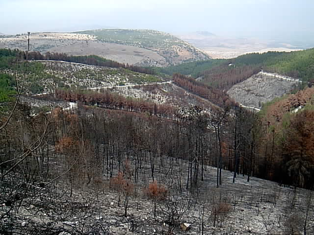 Birya Forest, after Lebnon war